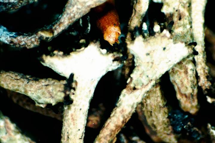 Cladonia crispata (Ach.) Flot., 1839 (photograph of a herbarium specimen taken through a dissecting microscope (x24) showing podetial cups with black pycnidia on the margins) Growing on soil in open Jack Pine woods near Crumley Creek off US-68, Cheboygan County, Michigan, USA; collected and identified by Richard E. Riefner (No. 81-454, 14 Jul 1981); specimen is now in the Lichen Herbarium of the New York Botanical Garden.